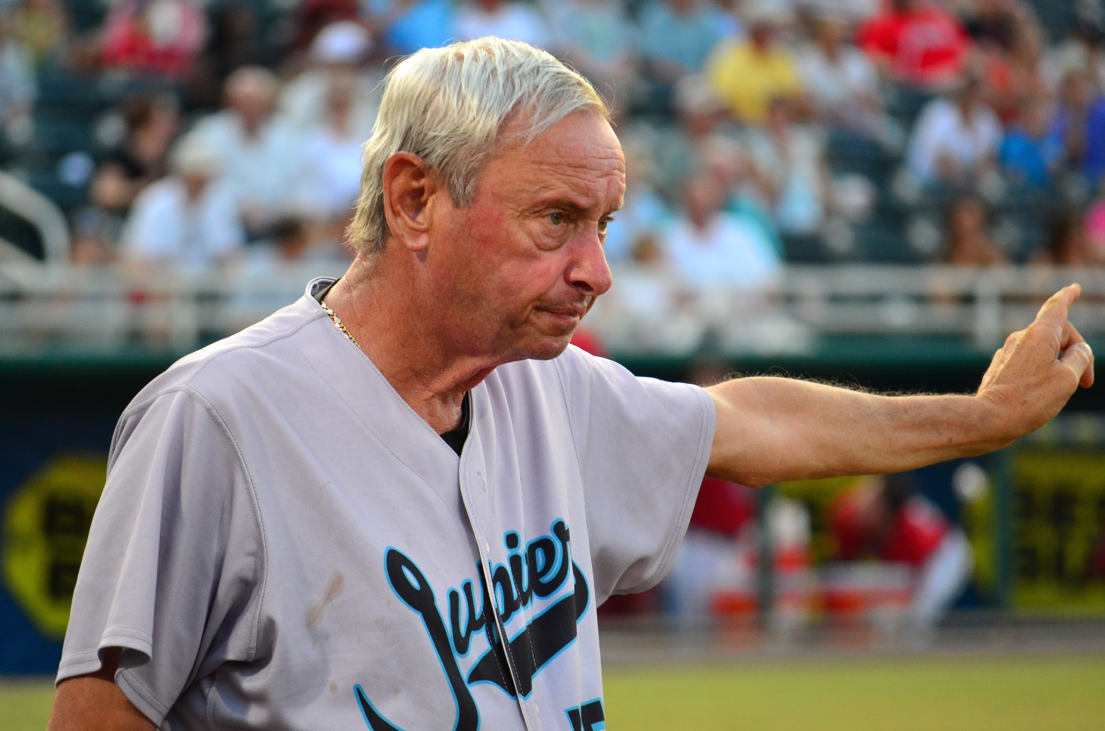 Joe Colman makes a pitching change.